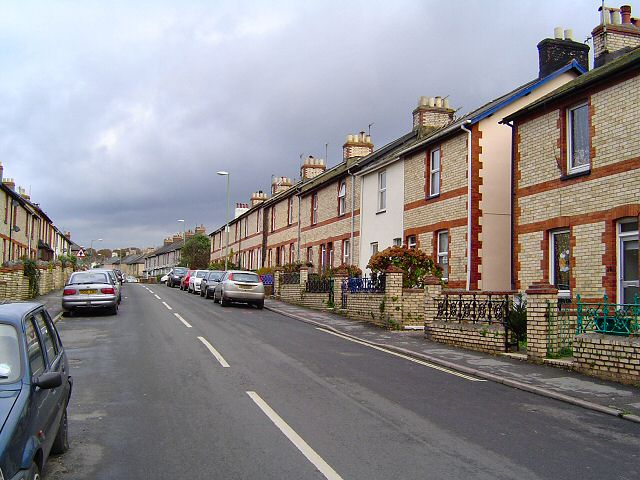 looking north up Exeter Road, Kingsteignton, Devon, England. Not so many years ago this street was one of the main roads of south Devon joining Exeter to Newton Abbot. Now it is a fairly quiet residential street.